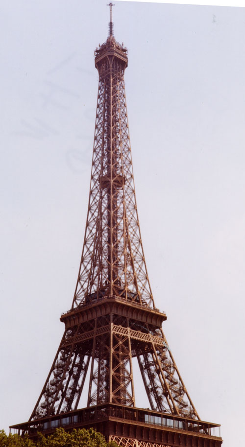 The Eiffel Tower from the Seine.